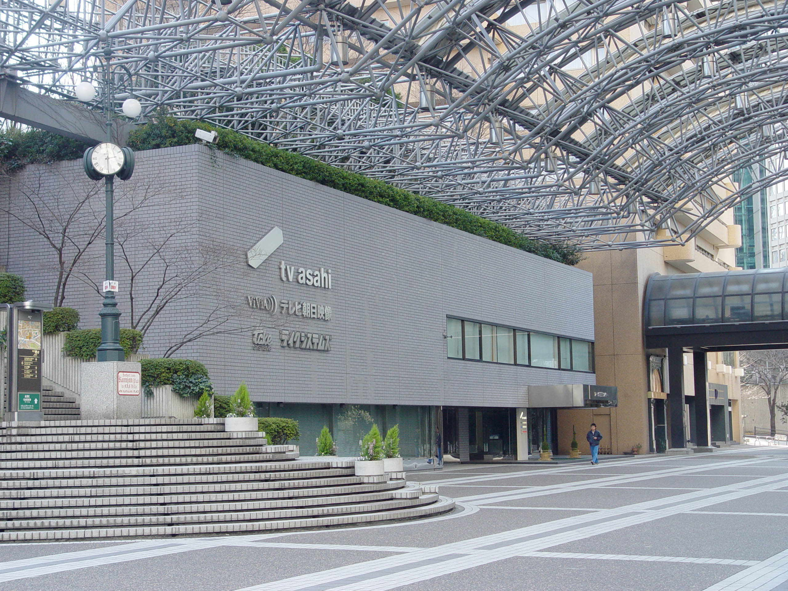 Arc Broadcasting center(Annex) of TV Asahi,Tokyo, Japan テレビ朝日 アーク放送センター